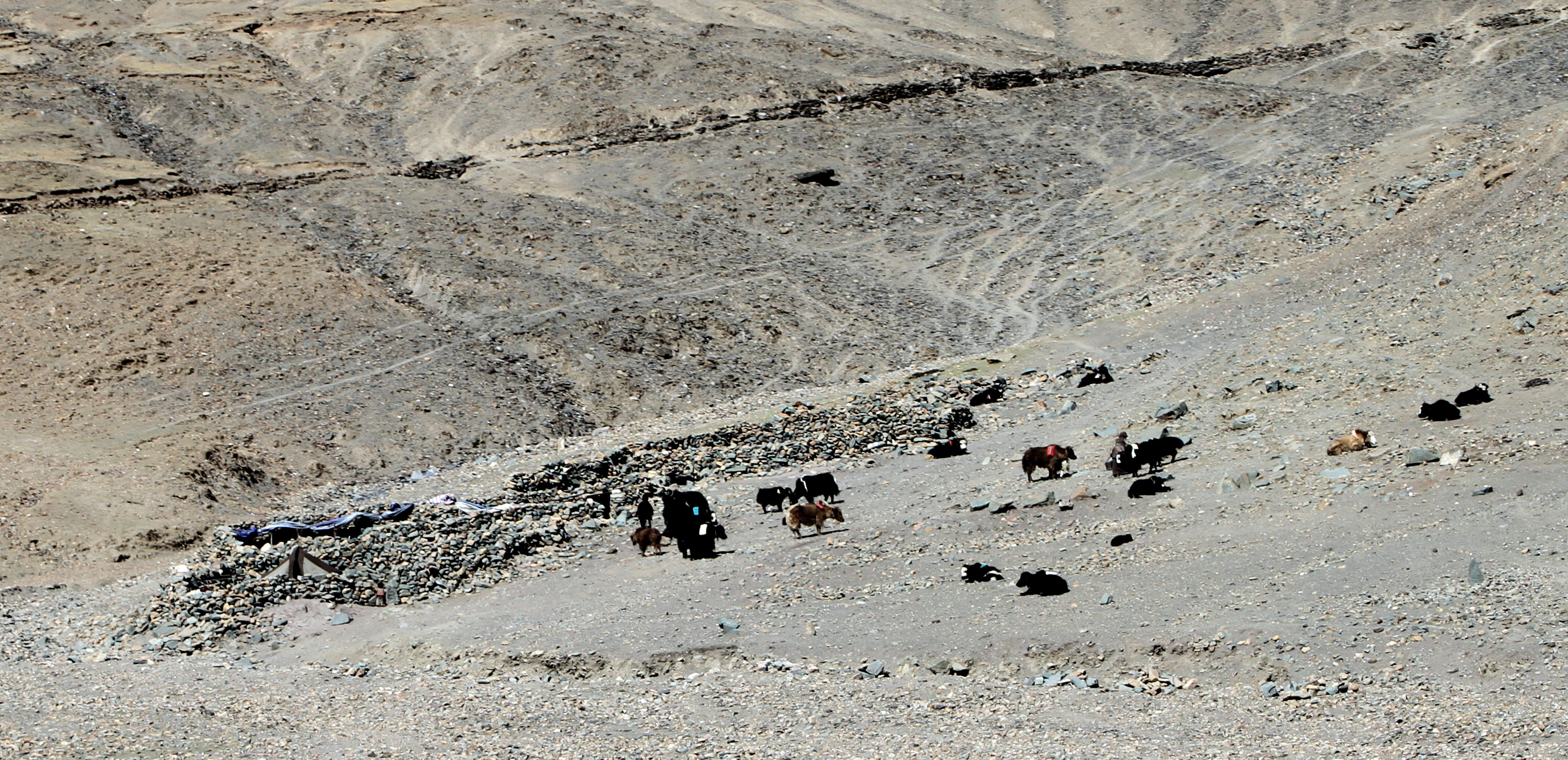 Agriculture in Xigazê prefecture in Tibet